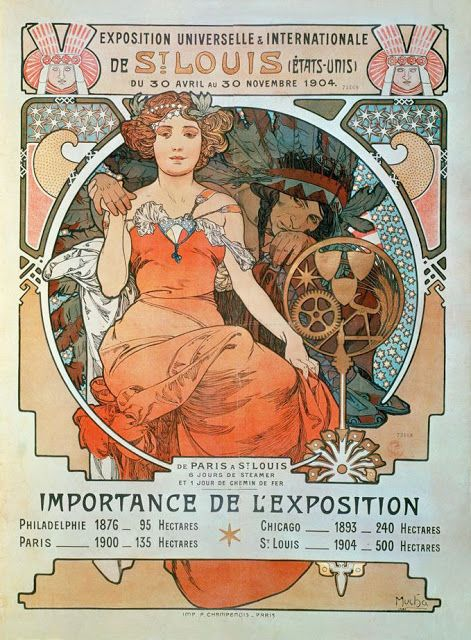 Poster for the Louisiana Purchase Exposition, informally known as the St. Louis World's Fair, painted by artist Alphonse Mucha.